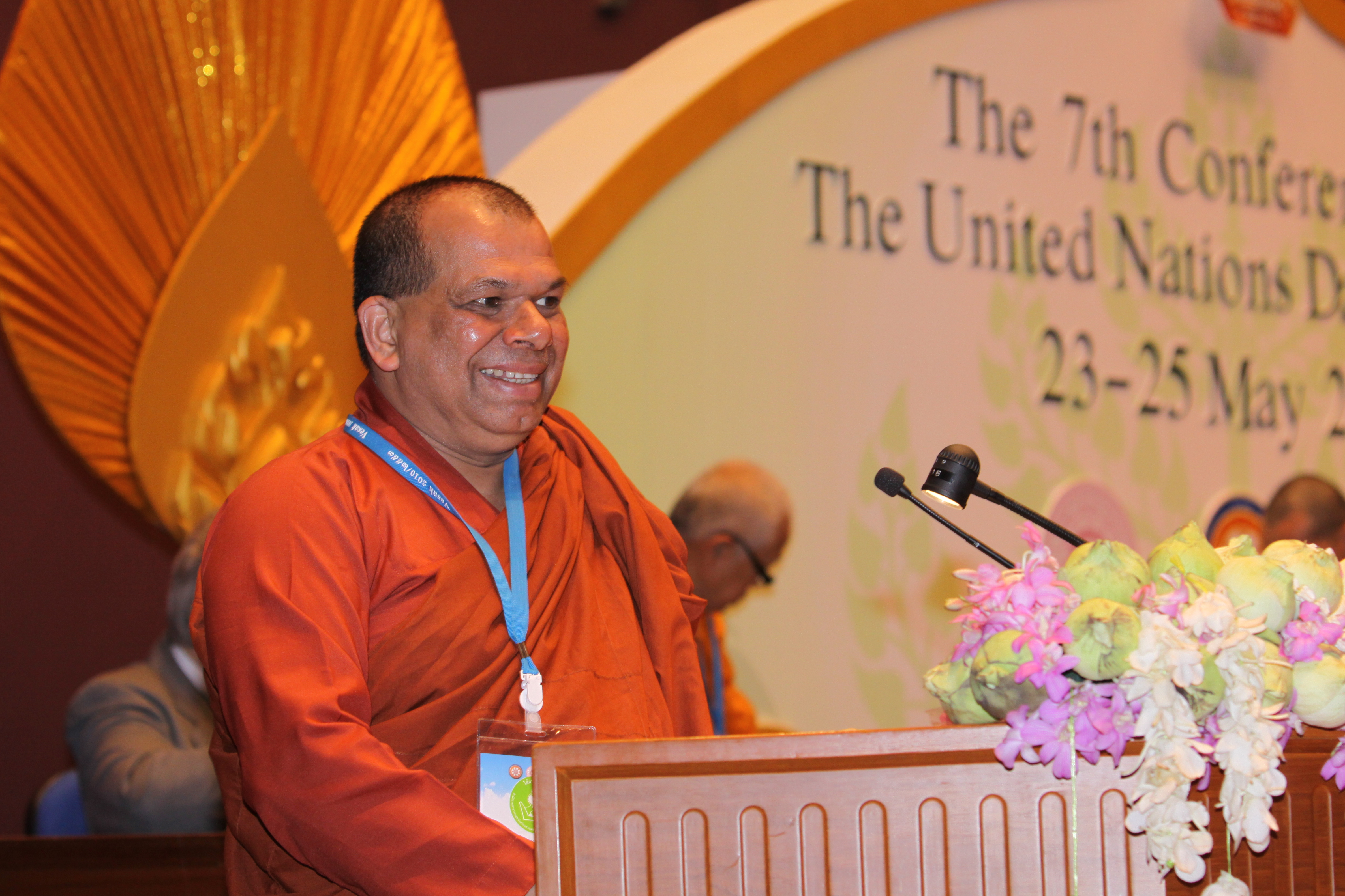 Venerable Tampalawela Dhammaratana